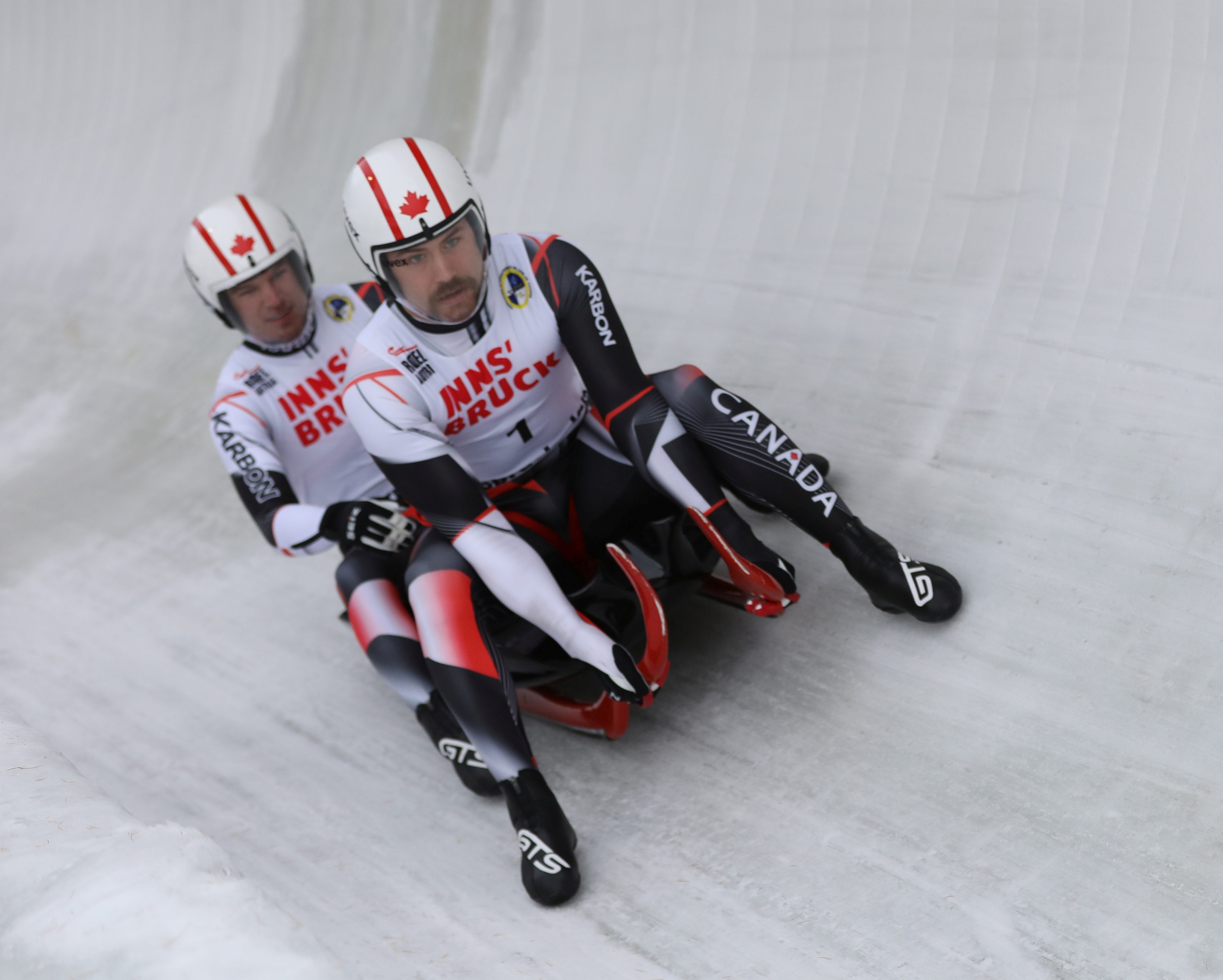 Doubles Nations Cup race at the 2019/20 Luge World Cup in Innsbruck-Igls